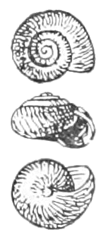 drawing of apical, apertural and umbilical view of the shell of Ovachlamys fulgens